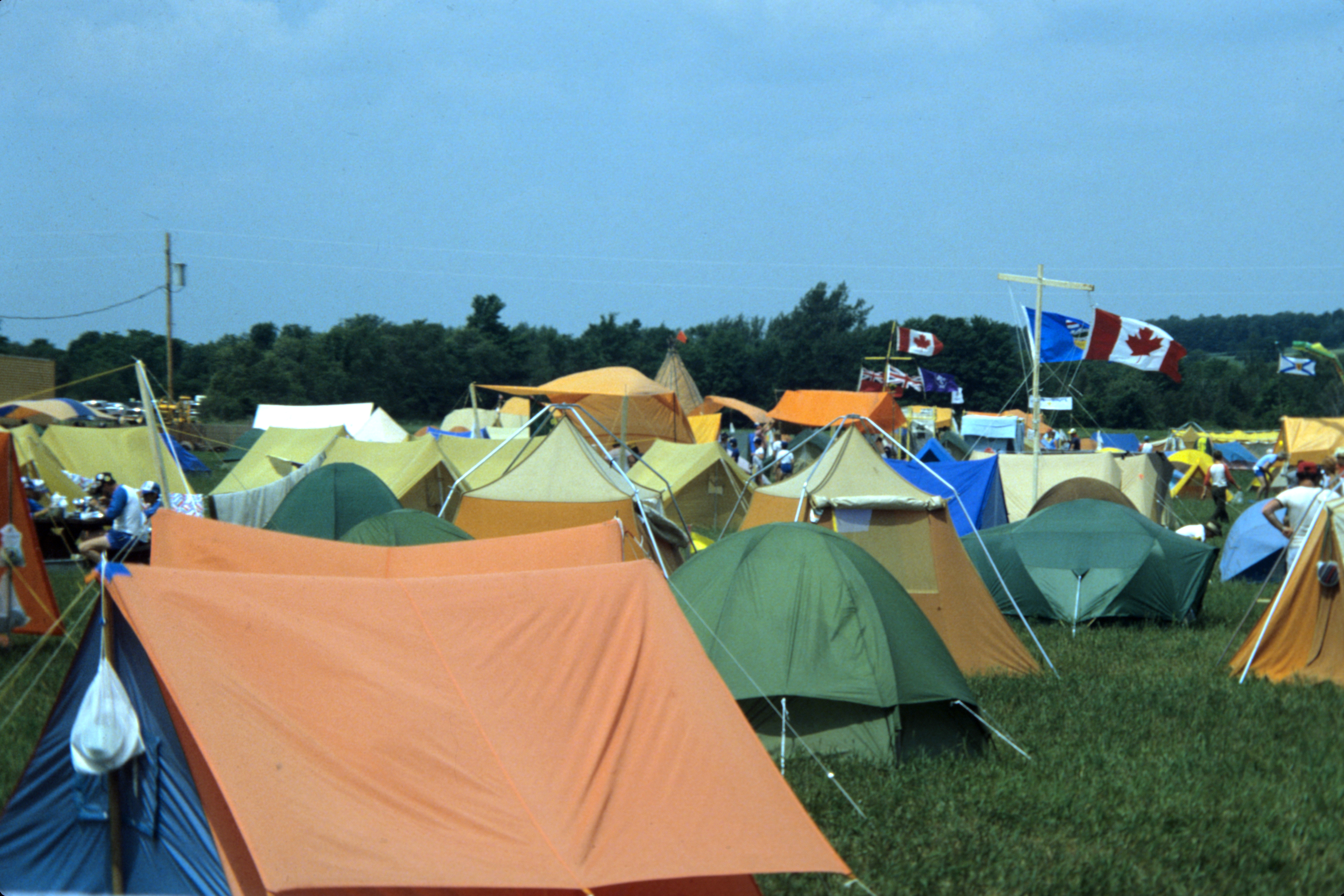 Scouts Canada, Tents, Toronto contingent to the 4th Pentathlon Jamboree Fredericton New Brunswick.